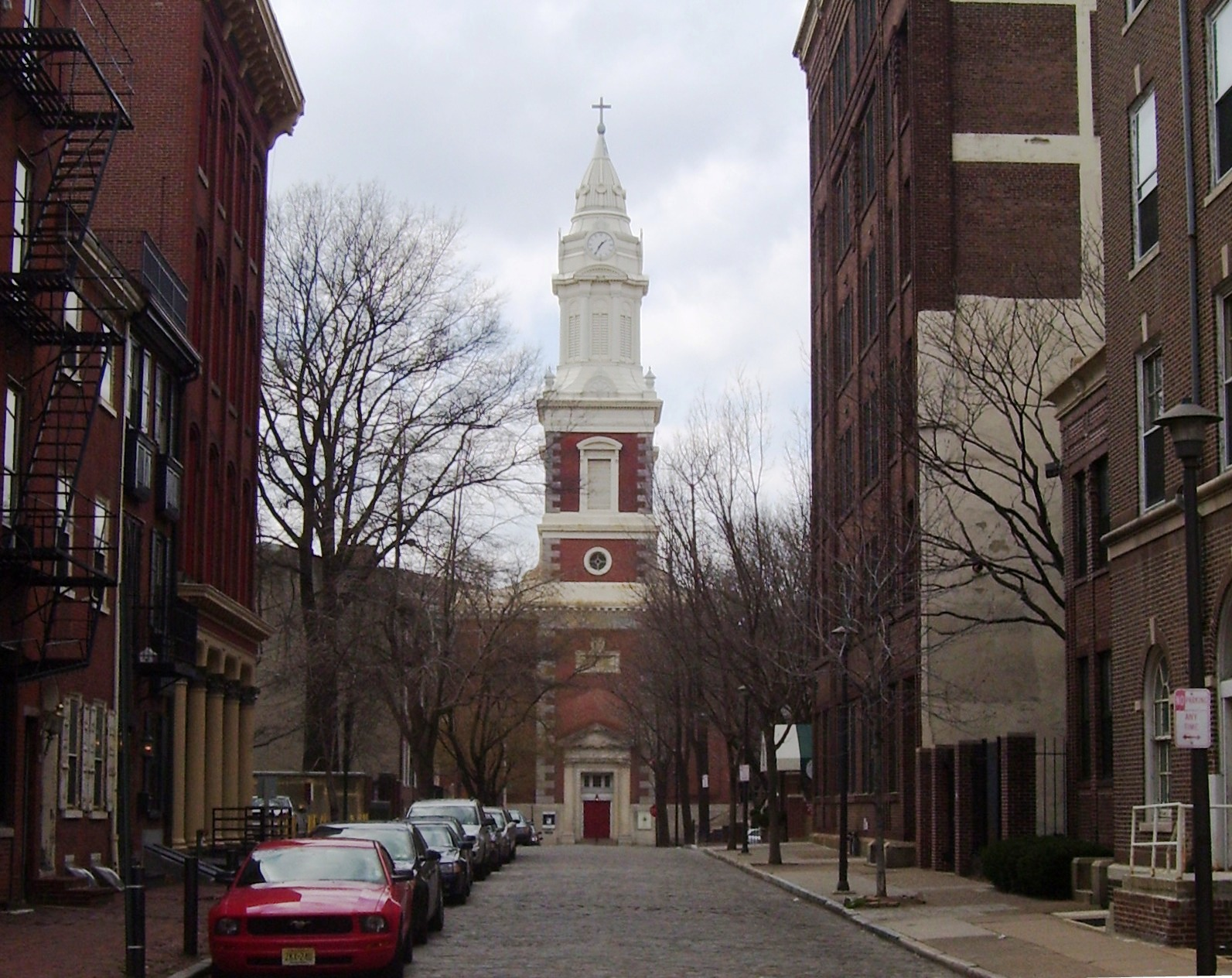 St. Augustine Roman Catholic Church (parish founded in 1796, church built in 1847, designed by Napoleon LeBrun), located at 243 North Lawrence Street in the Old City neighborhood of Philadelphia, Pennsylvania, as seen down New Street from N. 3rd Street. The previous church was destroyed in 1844 in Nativist riots. (Source: "History" on the St. Augustine Church website)